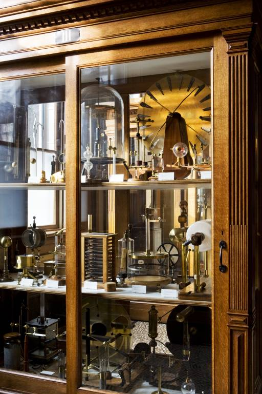 Interior Instrument Room Teylers Museum